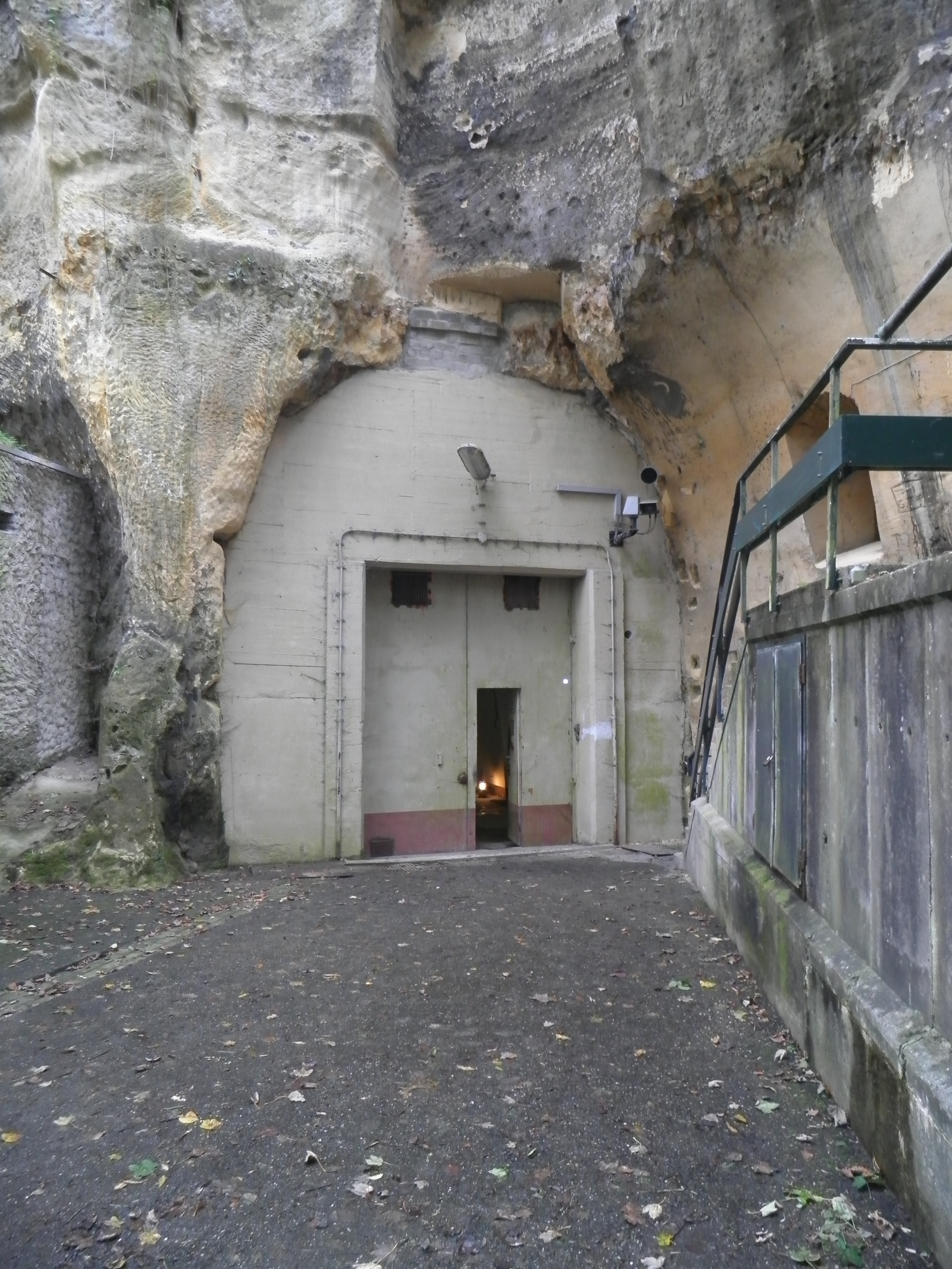 NATO headquarters Cannerberg - Entrance (outside)